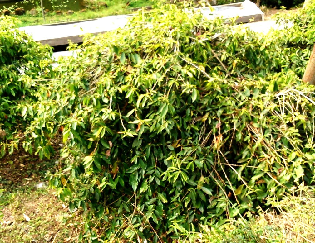 A specimen of Mocha coffee plant, collection of ICCRI, Indonesia, grown at Andungsari garden, Bondowoso, East Java.